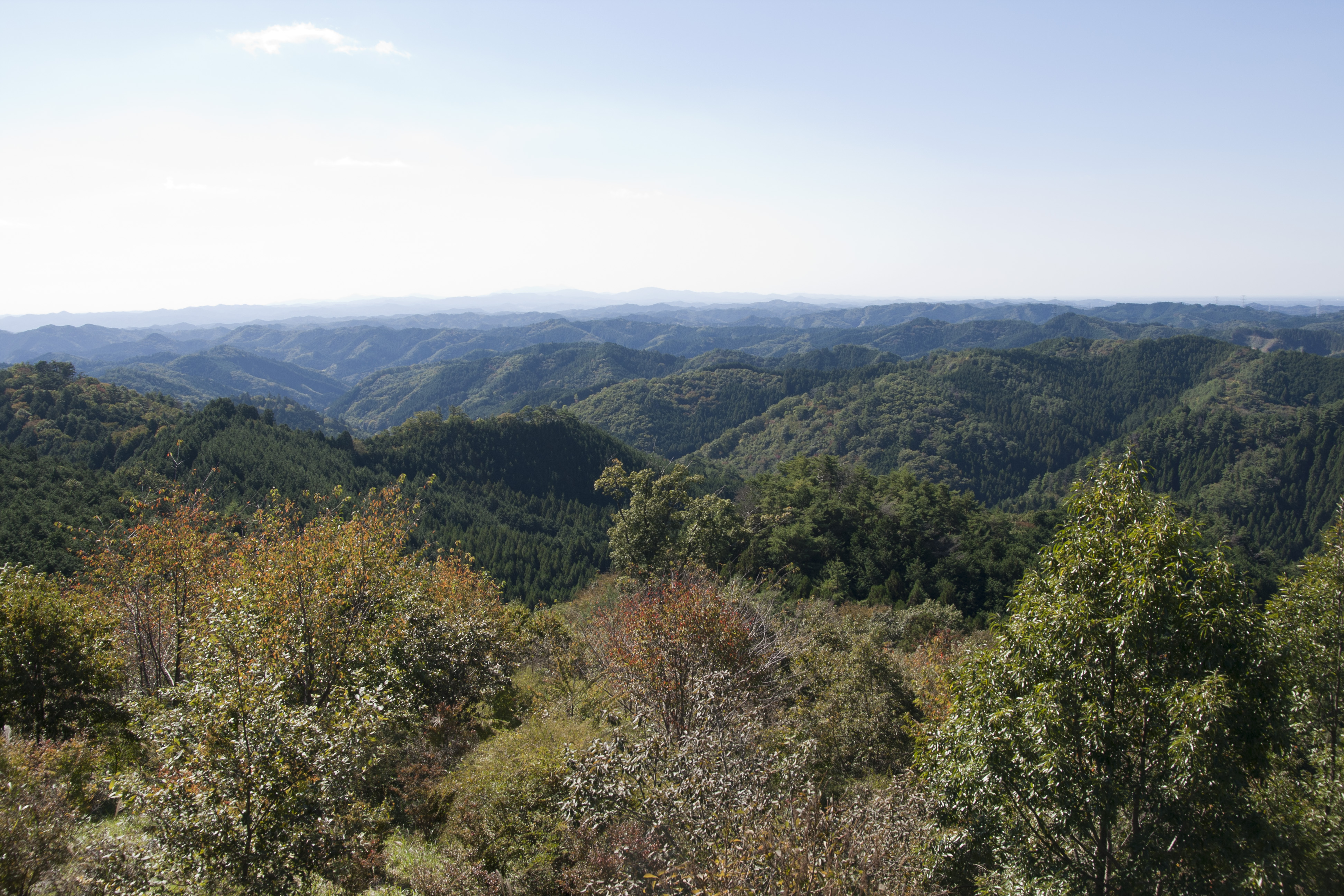 Yamizo Mountains from Mount Shakujo, Ibaraki and Tochigi Prefectures, Japan.